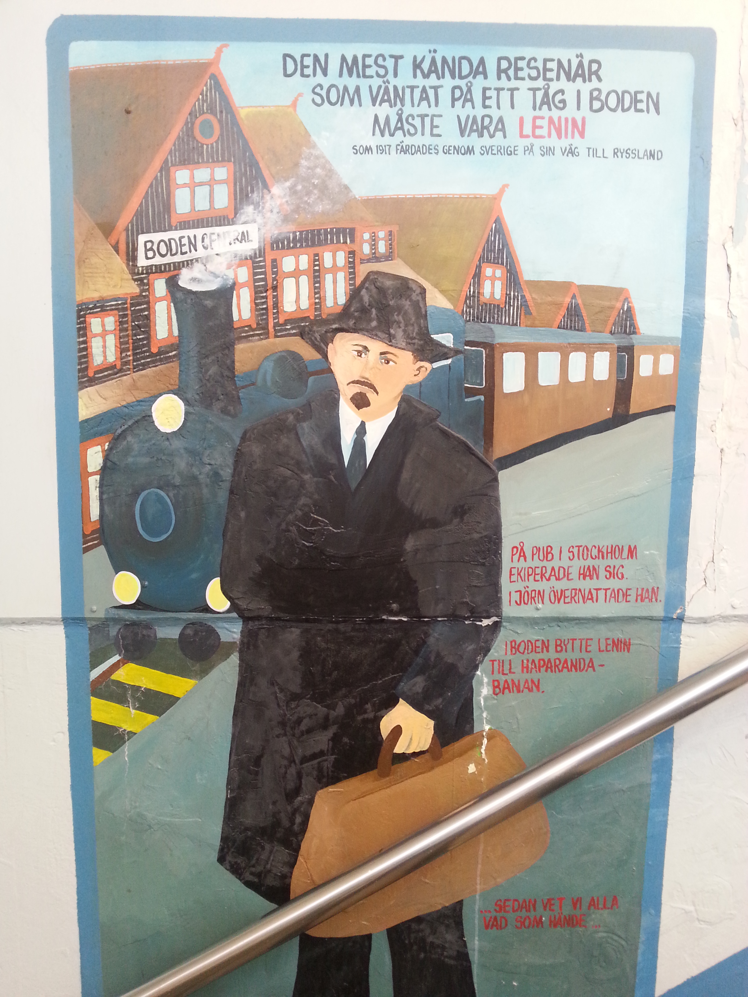 Lenin i Boden